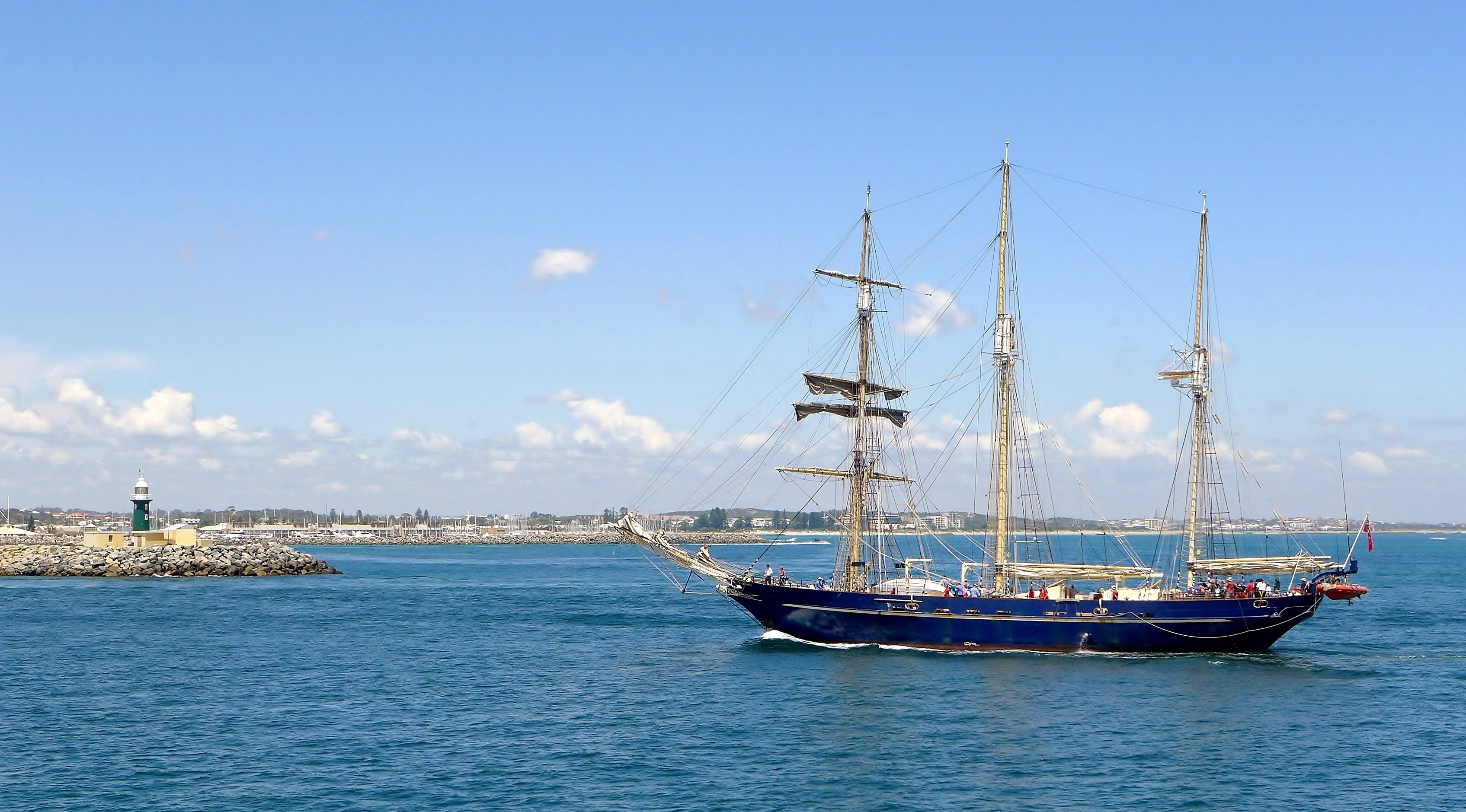 Leeuwin II entering the inner harbour of Fremantle Harbour, Western Australia, at the completion of her first day sail on the opening day of her summer day sail season.